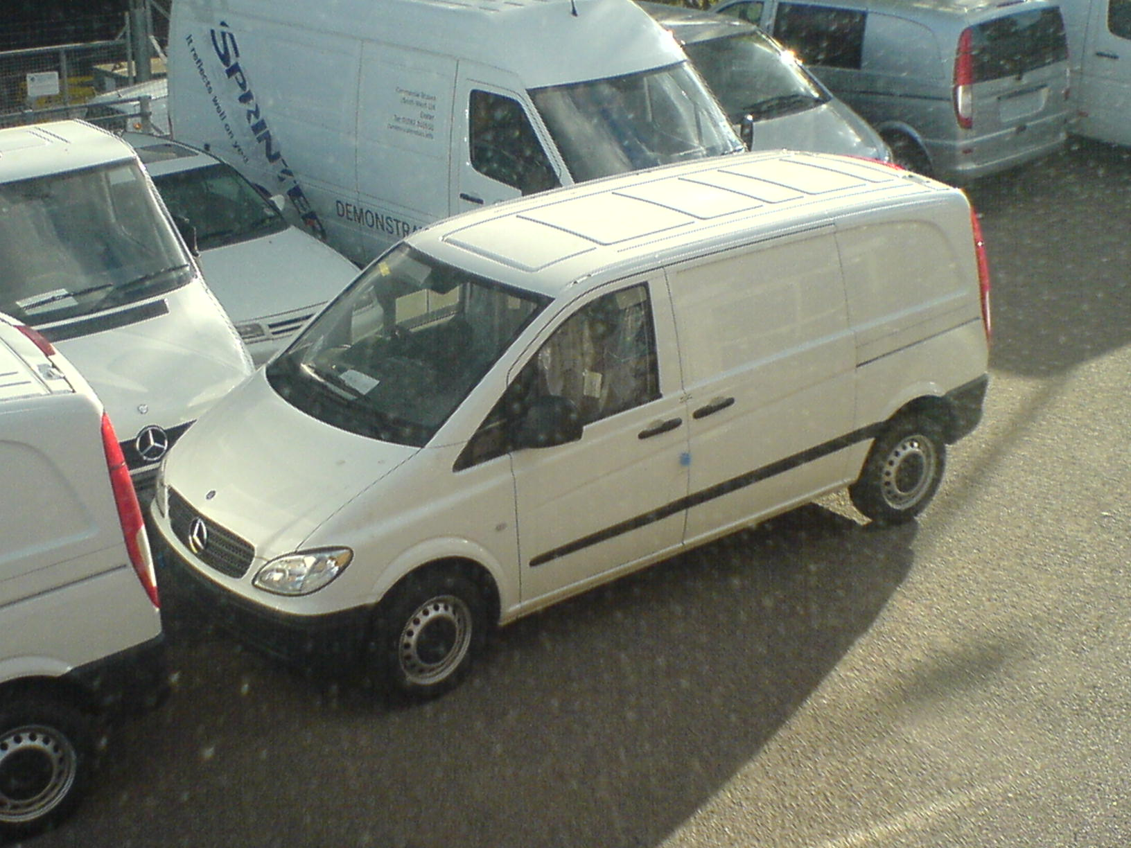 The Vito haves a small triangular a-pillar window for better driver visibility Mercedes Vito Panel Van